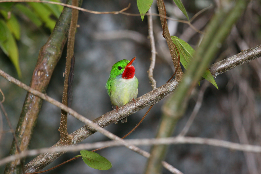 Jamaican Tody Todus todus